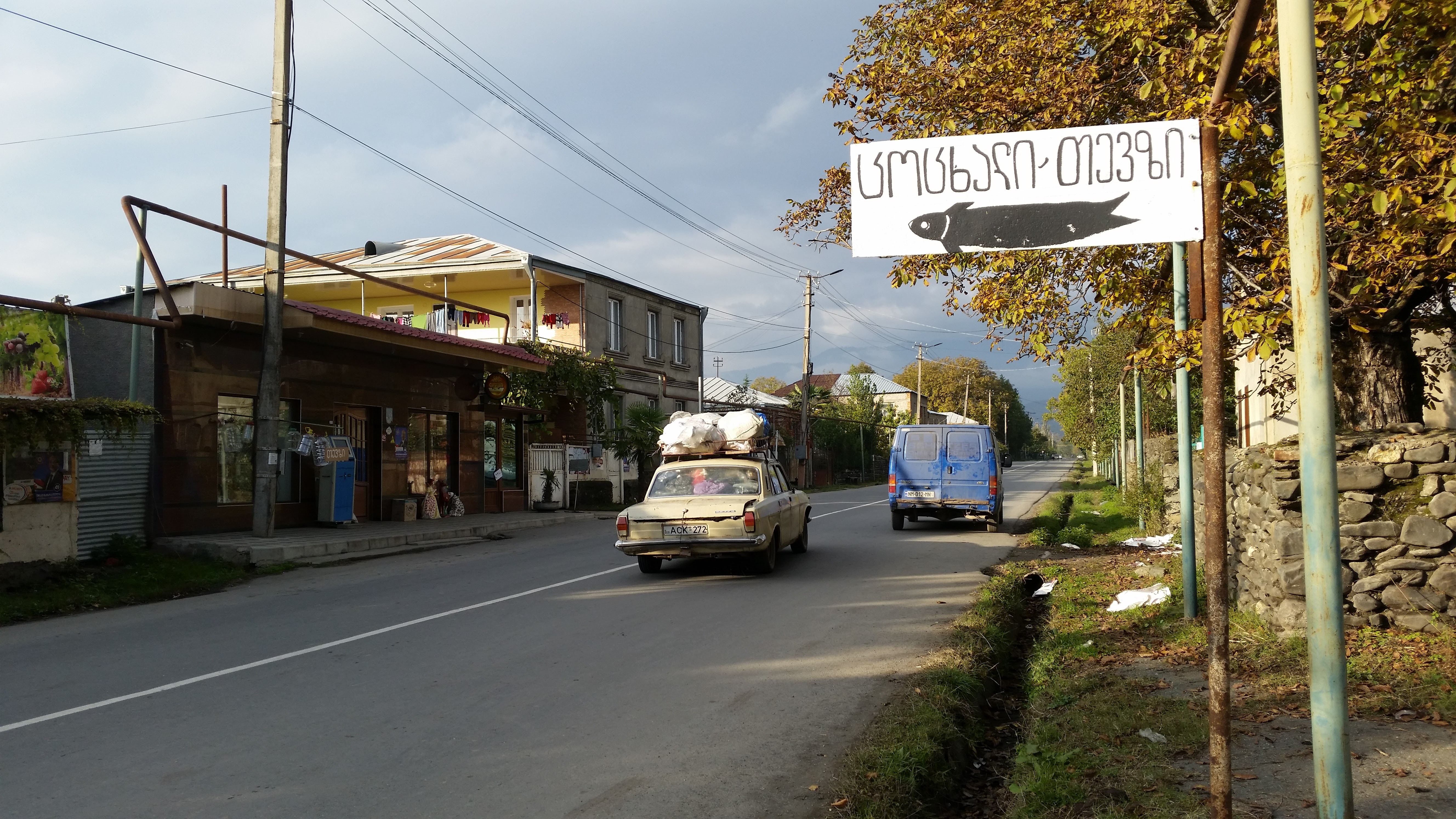 The main road from Tbilisi to Kvareli goes through the Village Sanavardo.